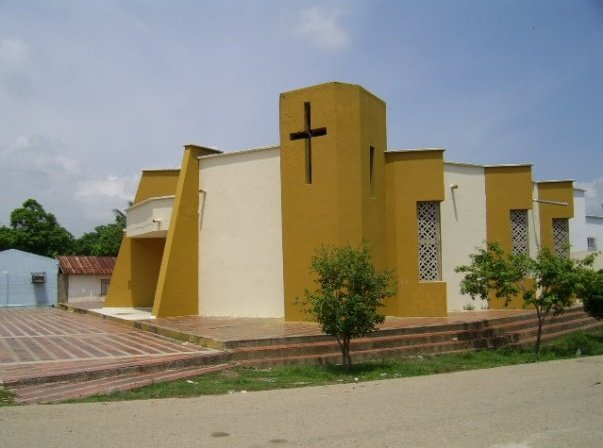 Cotoprix Church, La Guajira Colombia